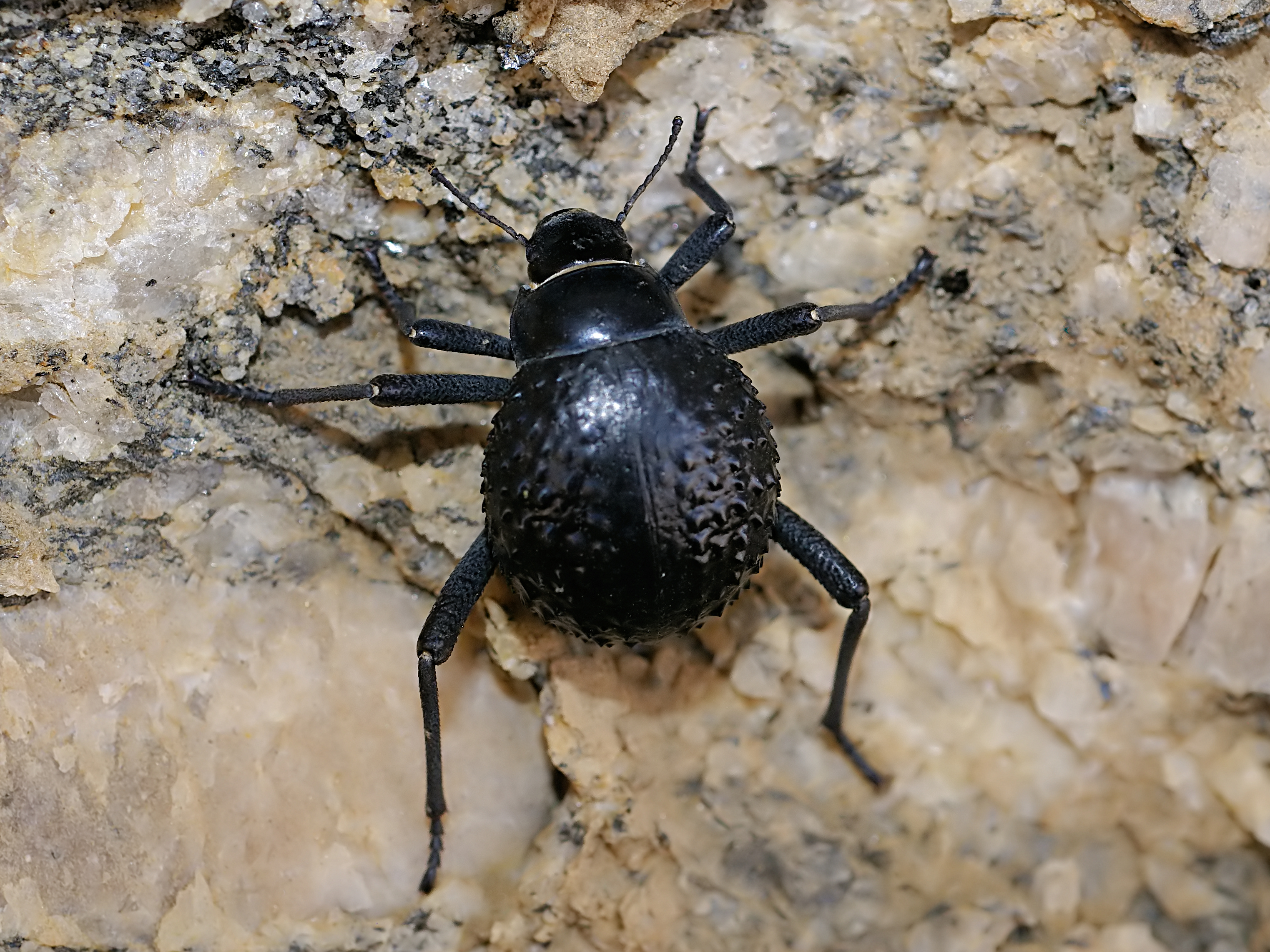 Long-legged darkling beetle, at Vogelfederberg, near Walvis Bay in the Namib-Naukluft, Namibia